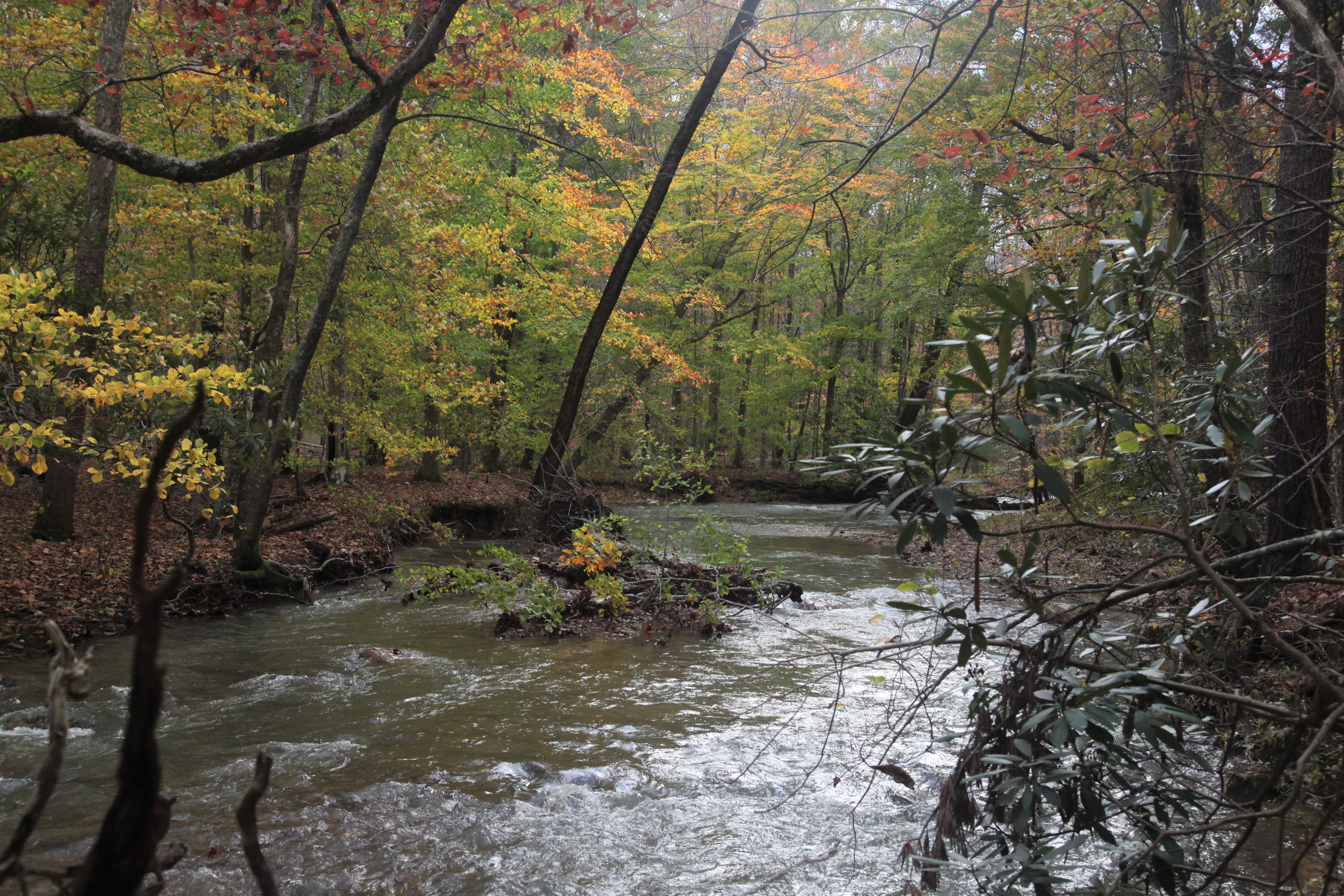 ek, on border of Brush Mountain Wilderness, near Va 635